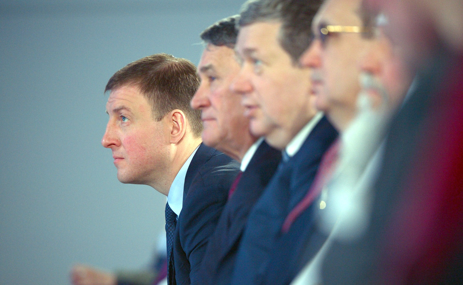 Putin Presidential Address to the Federal Assembly (2018-03-01)